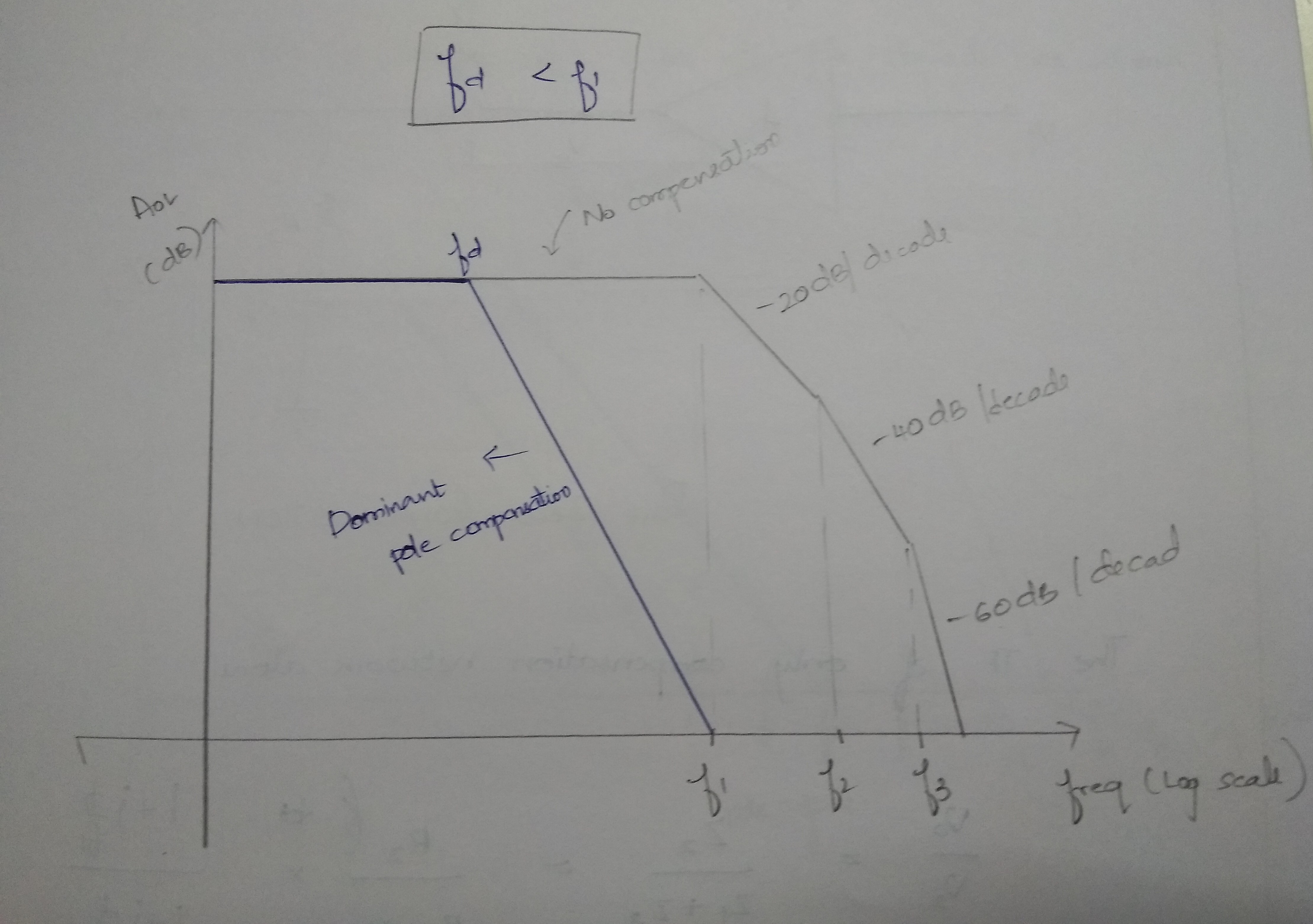 This file is an image of the frequency response of an open loop OP-Amp before and after dominant pole compensation.